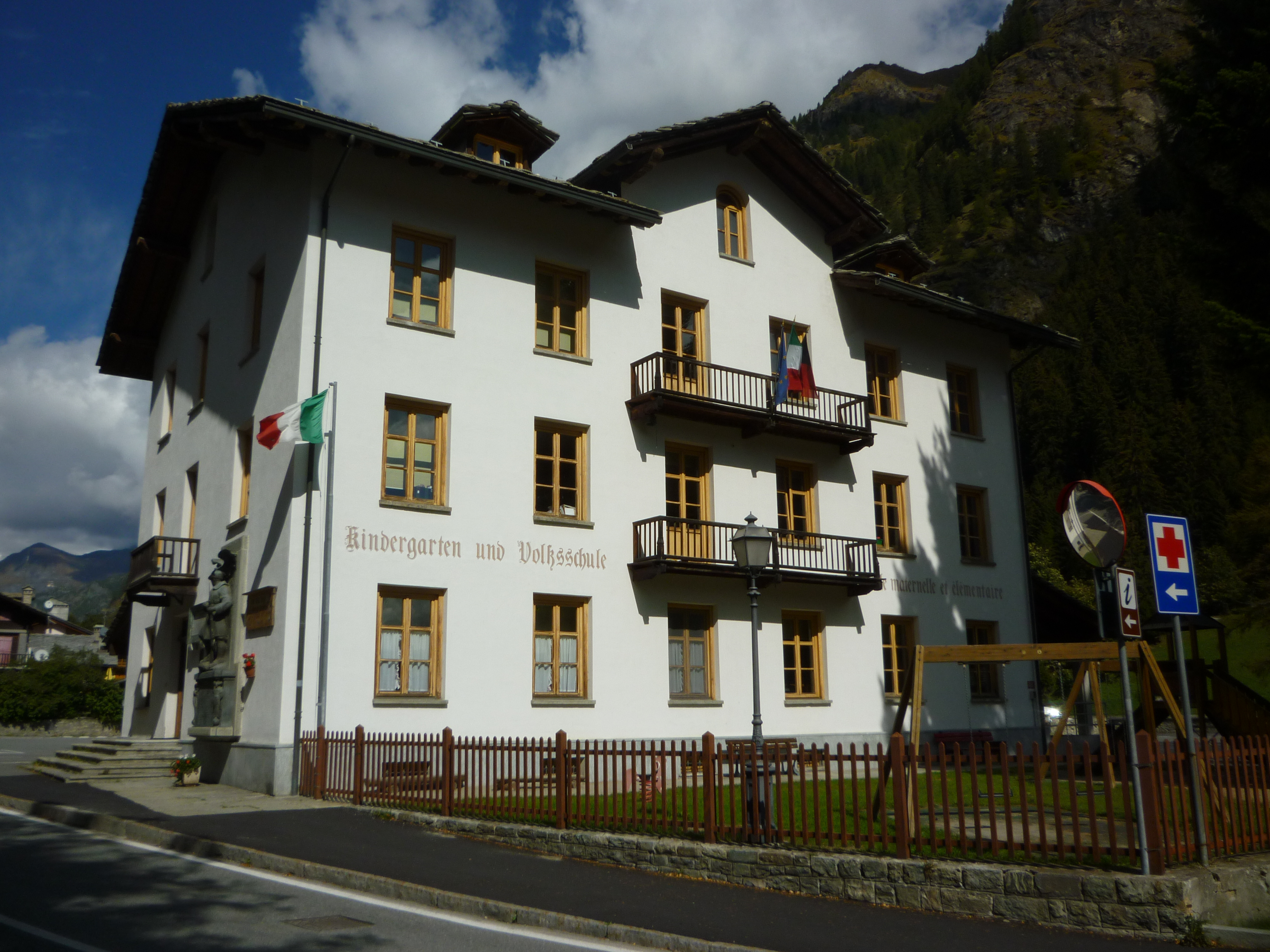 School in Gressoney-Saint-Jean (Aosta Valley, Italy)